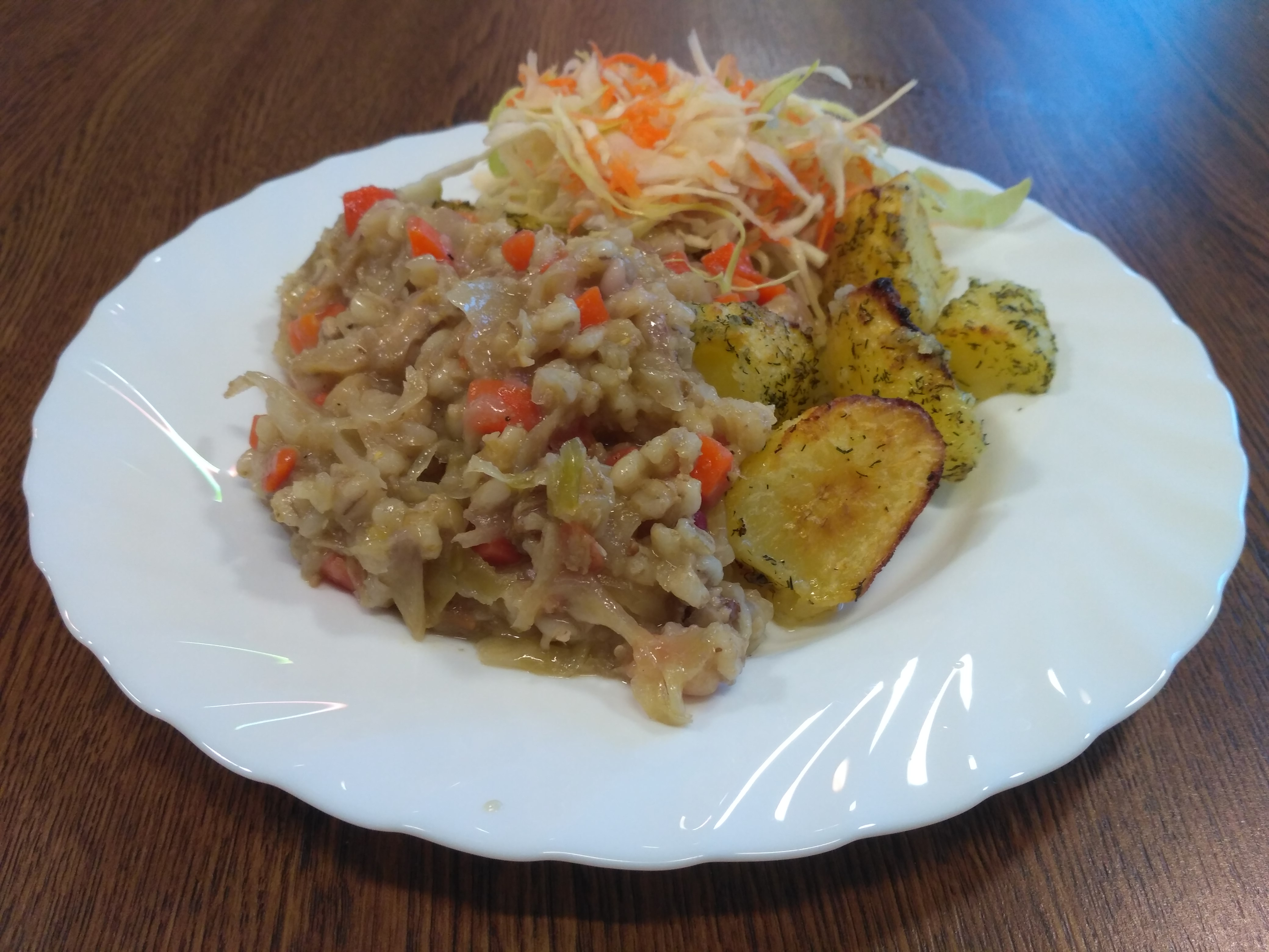 Mulgi kapsad with potatoes. Estonian national dish.